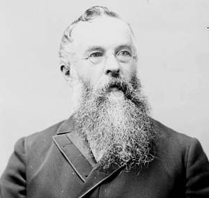 Augustine Colin MacDonald, M.P., (King's, P.E.I.)